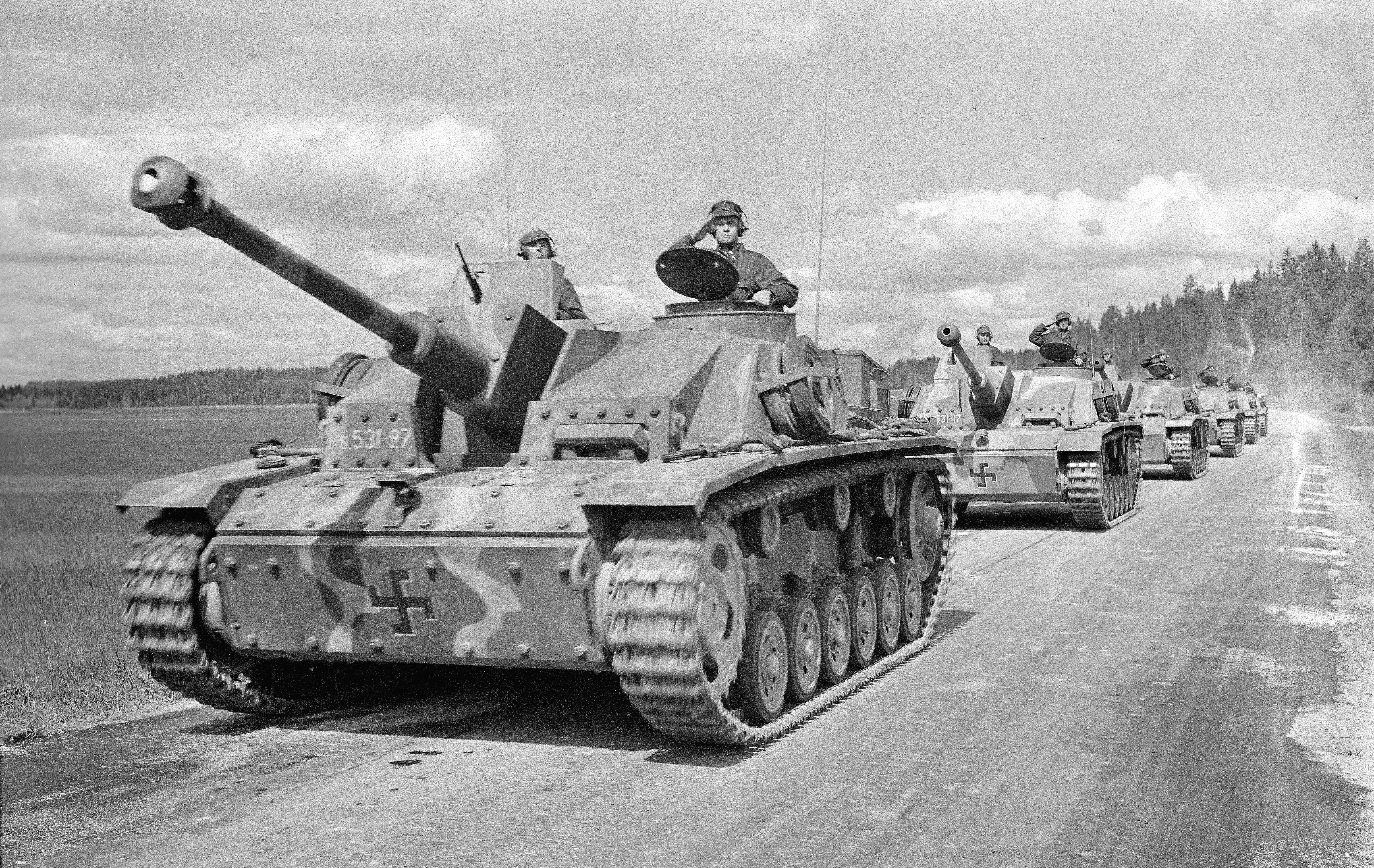 Finnish Assault Gun Battalion [Rynnäkkötykkipataljoona, Ryn.Tyk.P] - Sturmkanone 40 or StuG IIIG (Sturmgeschütz III Ausf. G, "Sturmi").